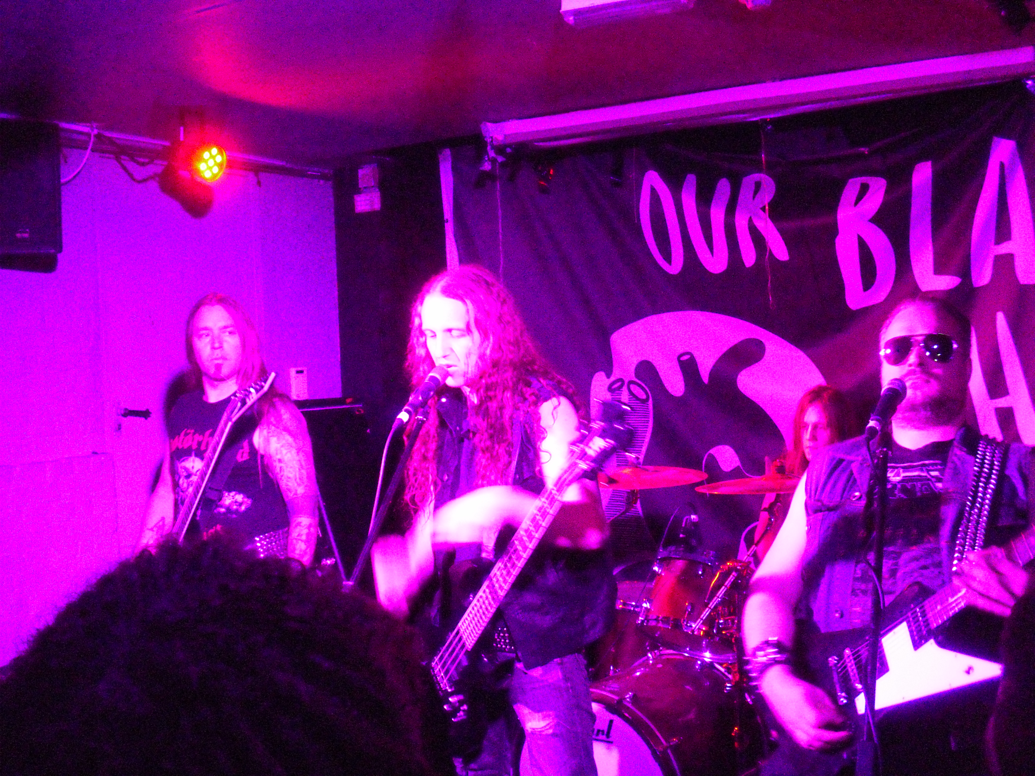 Aura Noir performing live in London in November 2012